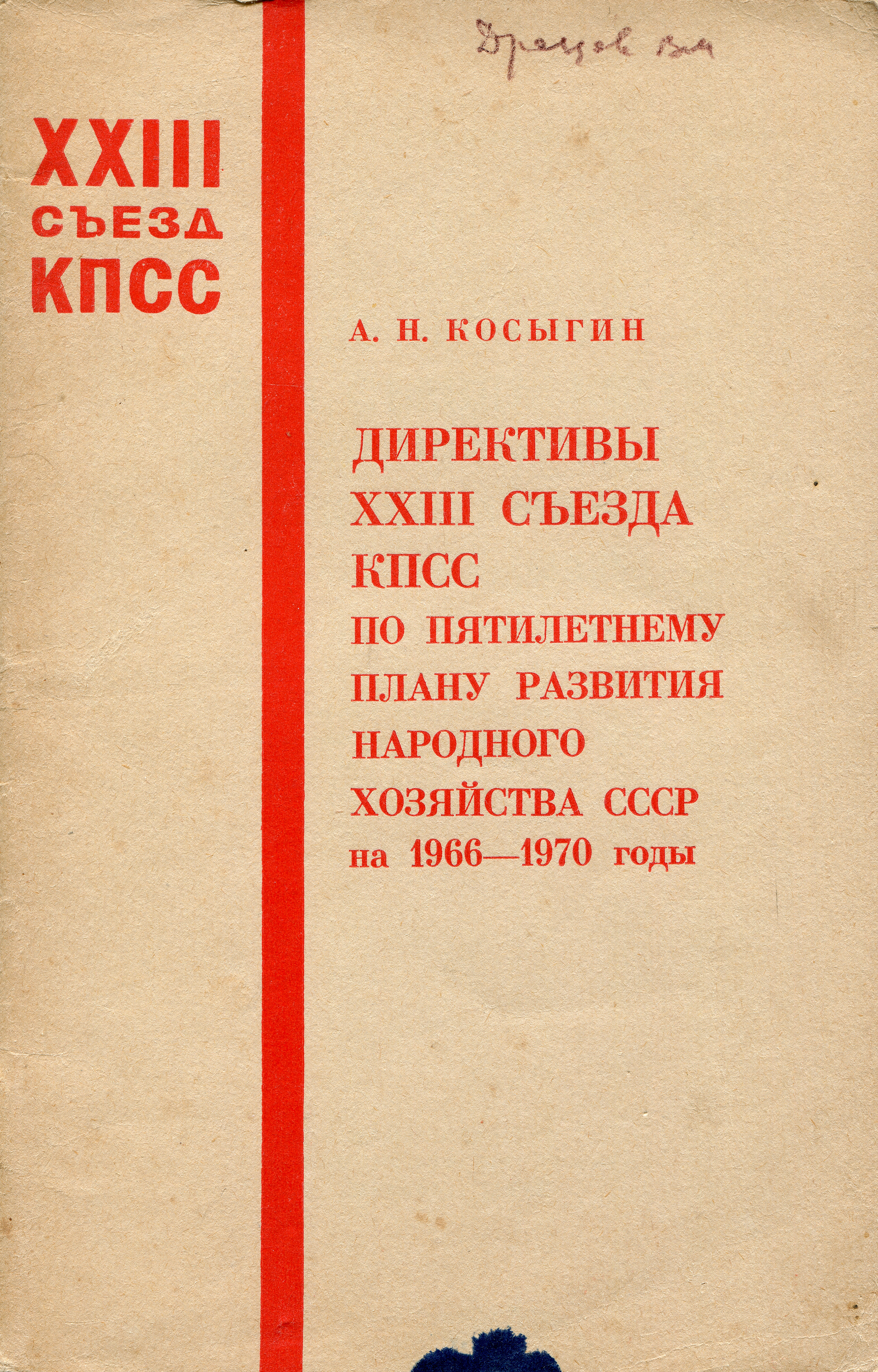 Directives of the XXIII Congress of the CPSU on the five-year plan for the development of the national economy of the USSR in 1966 - 1970. Report and closing remarks by the Chairman of the Council of Ministers of the USSR A.N. Kosygin. The circulation of 3 000 000 copies.